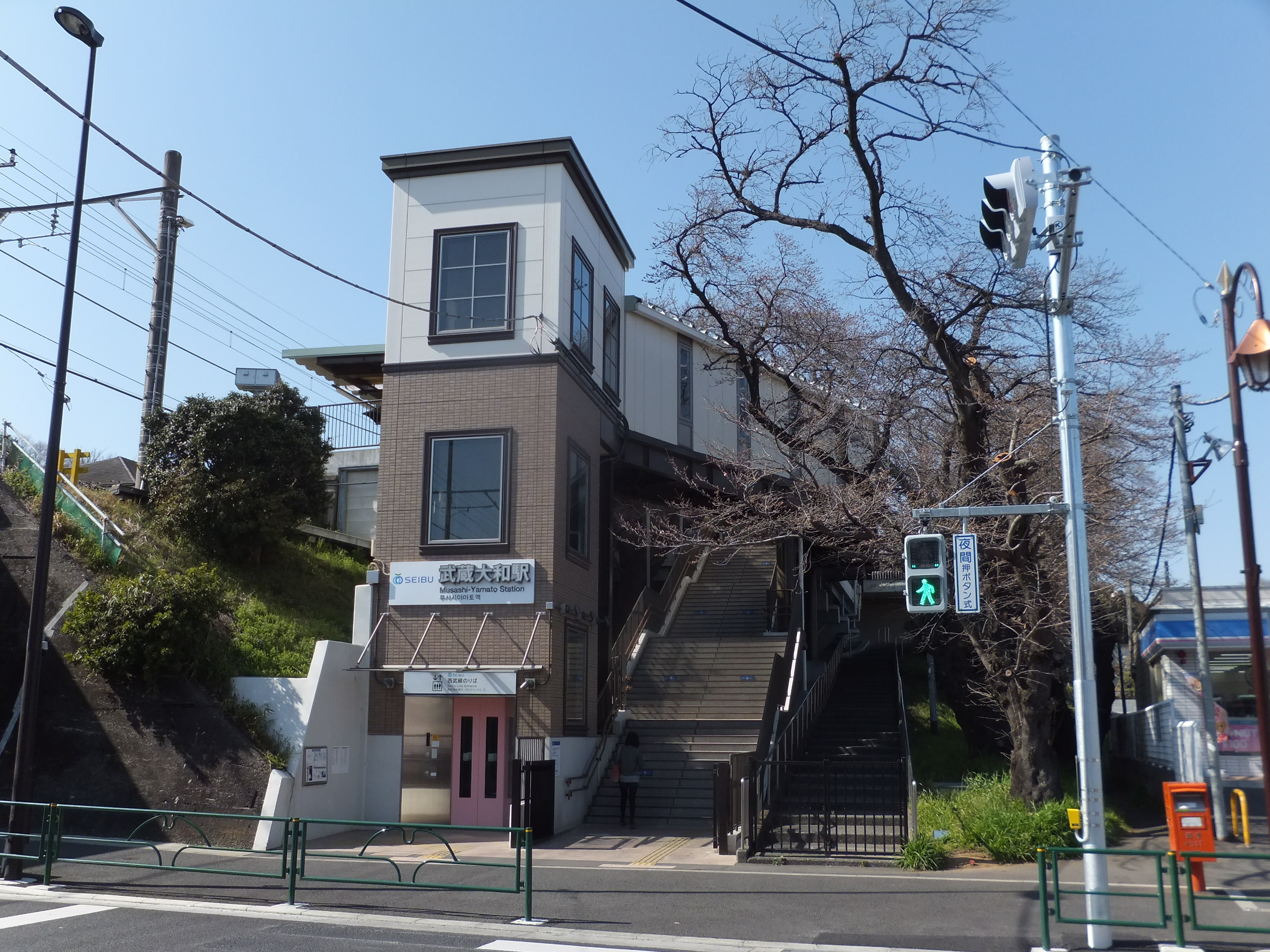 Musashi-Yamato Station on the Seibu Tamako Line, in Higashimurayama, Tokyo, Japan